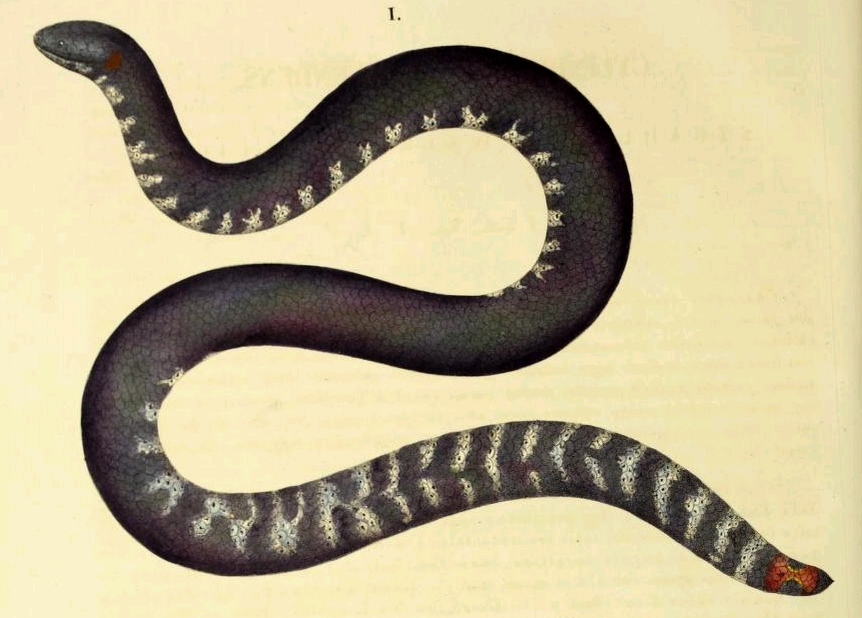 Cylindrophis resplendens (syn. C. ruffus), illustration from Wagler's Descriptiones et icones amphibiorum.